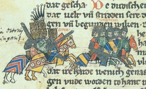 Battle of Lechfeld